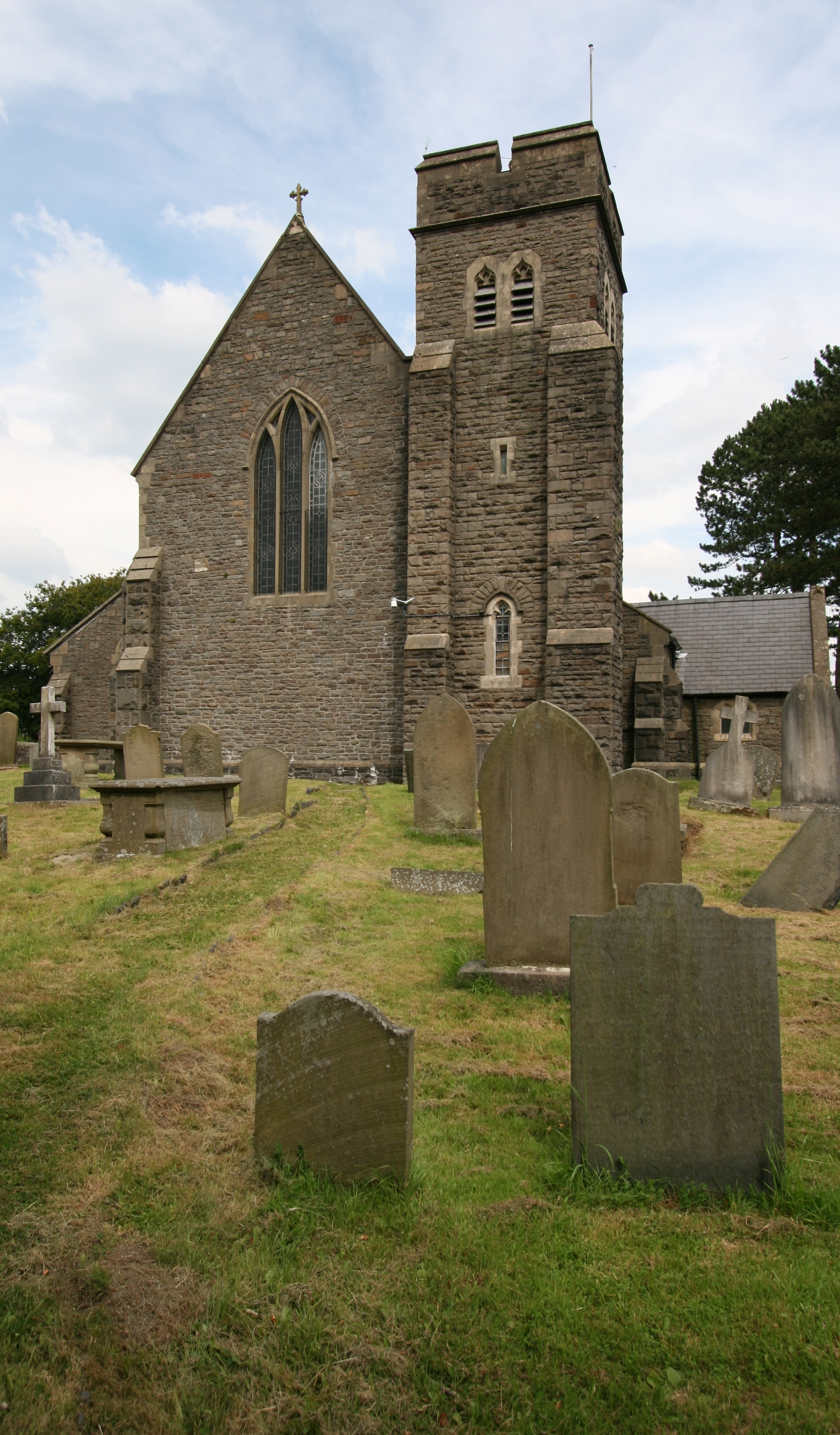 St Fagan's Church at Trecynon by Darren Wyn Rees at Aberdare Blog